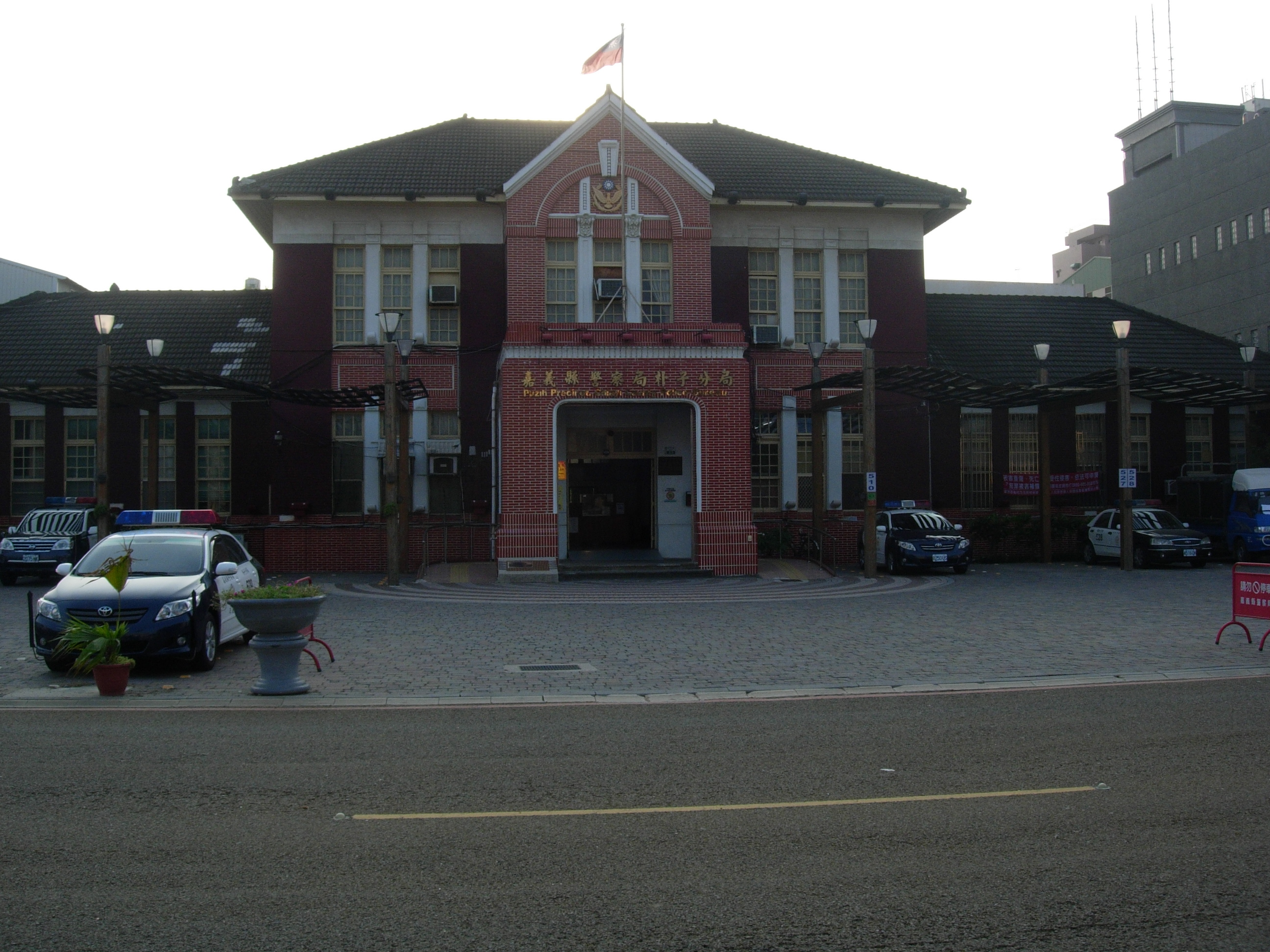 Puzih precinct of Chiayi county police bureau